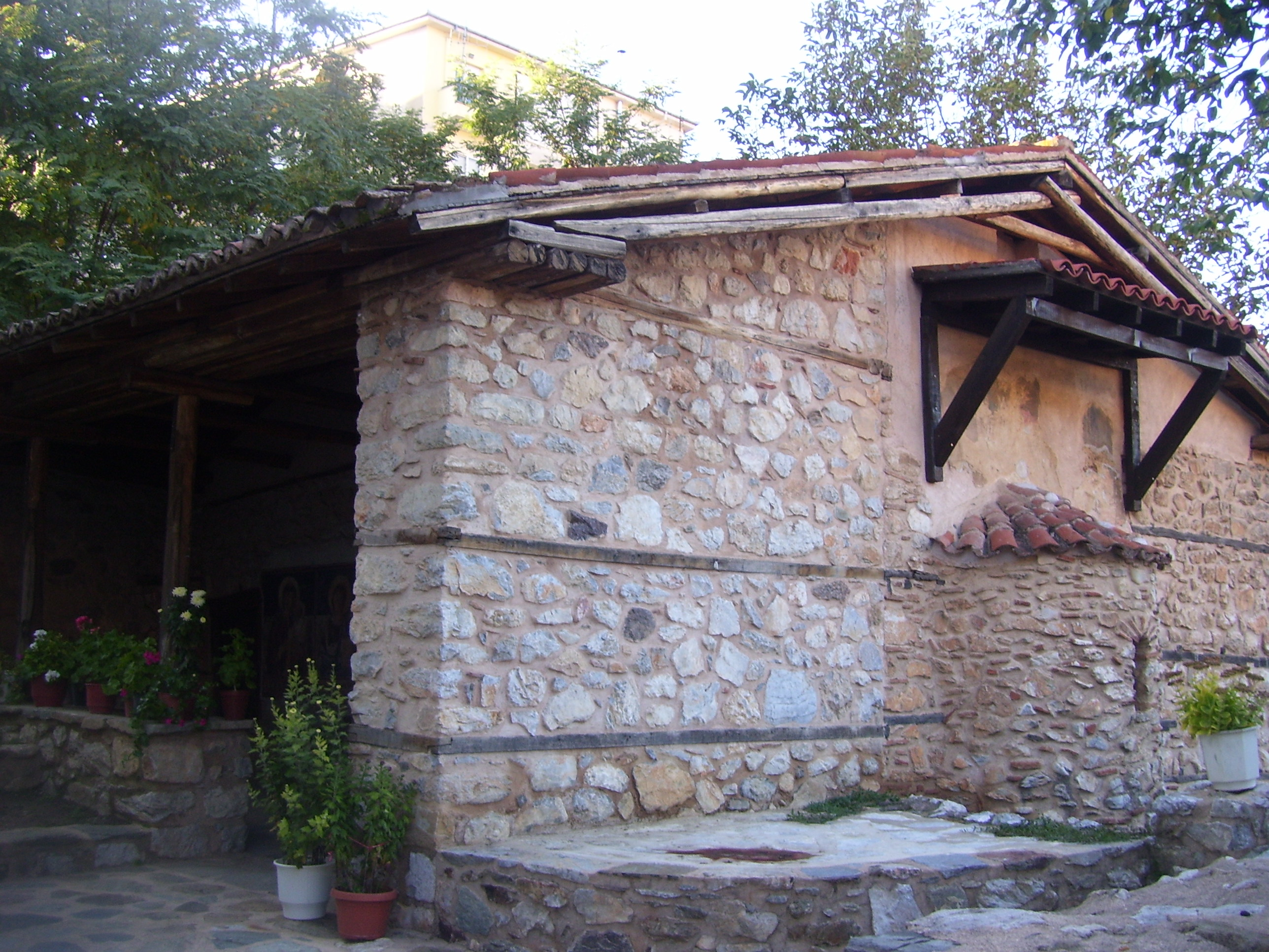 Saint Demetrius of Eleusa Church